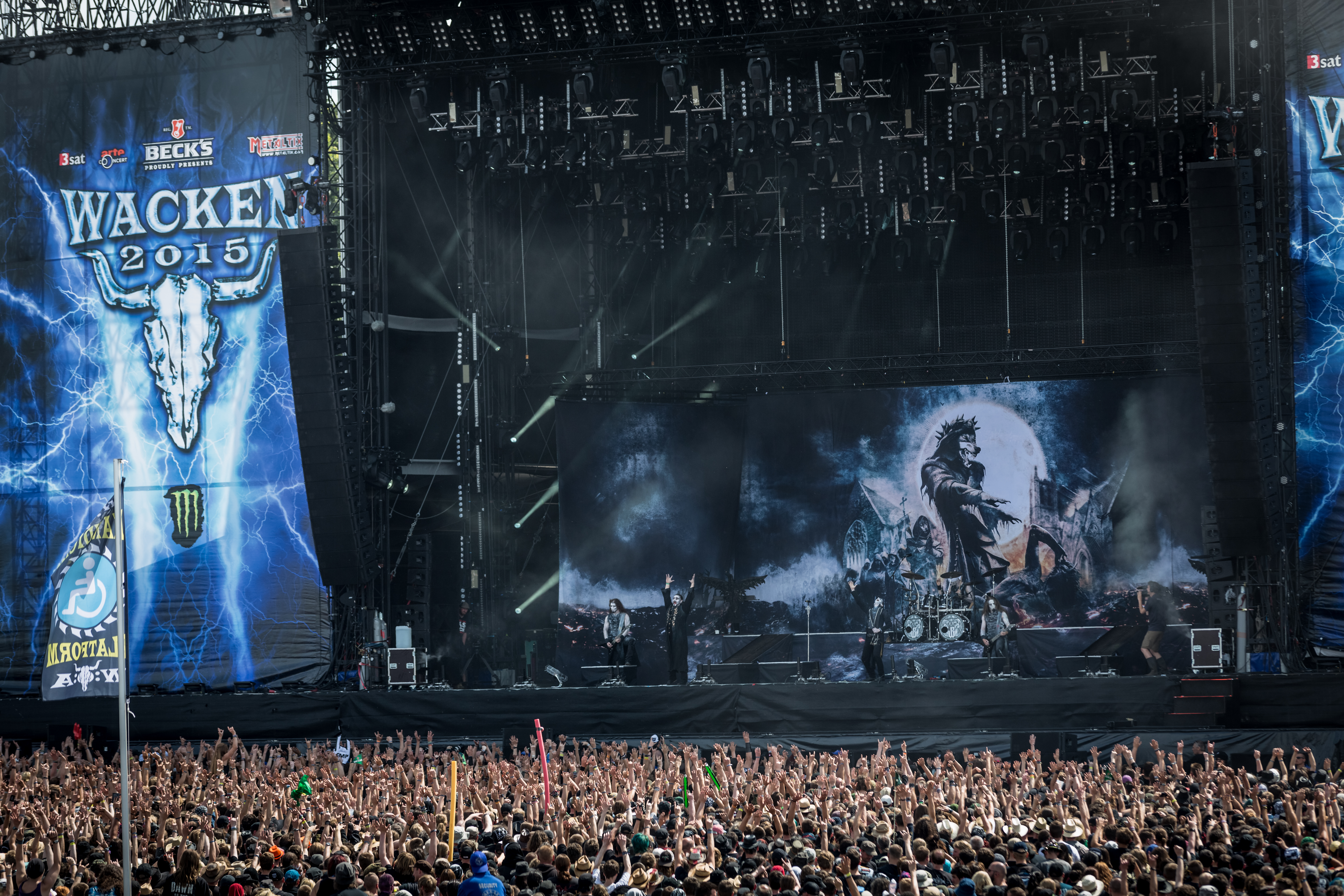 Powerwolf - Wacken Open Air 2015